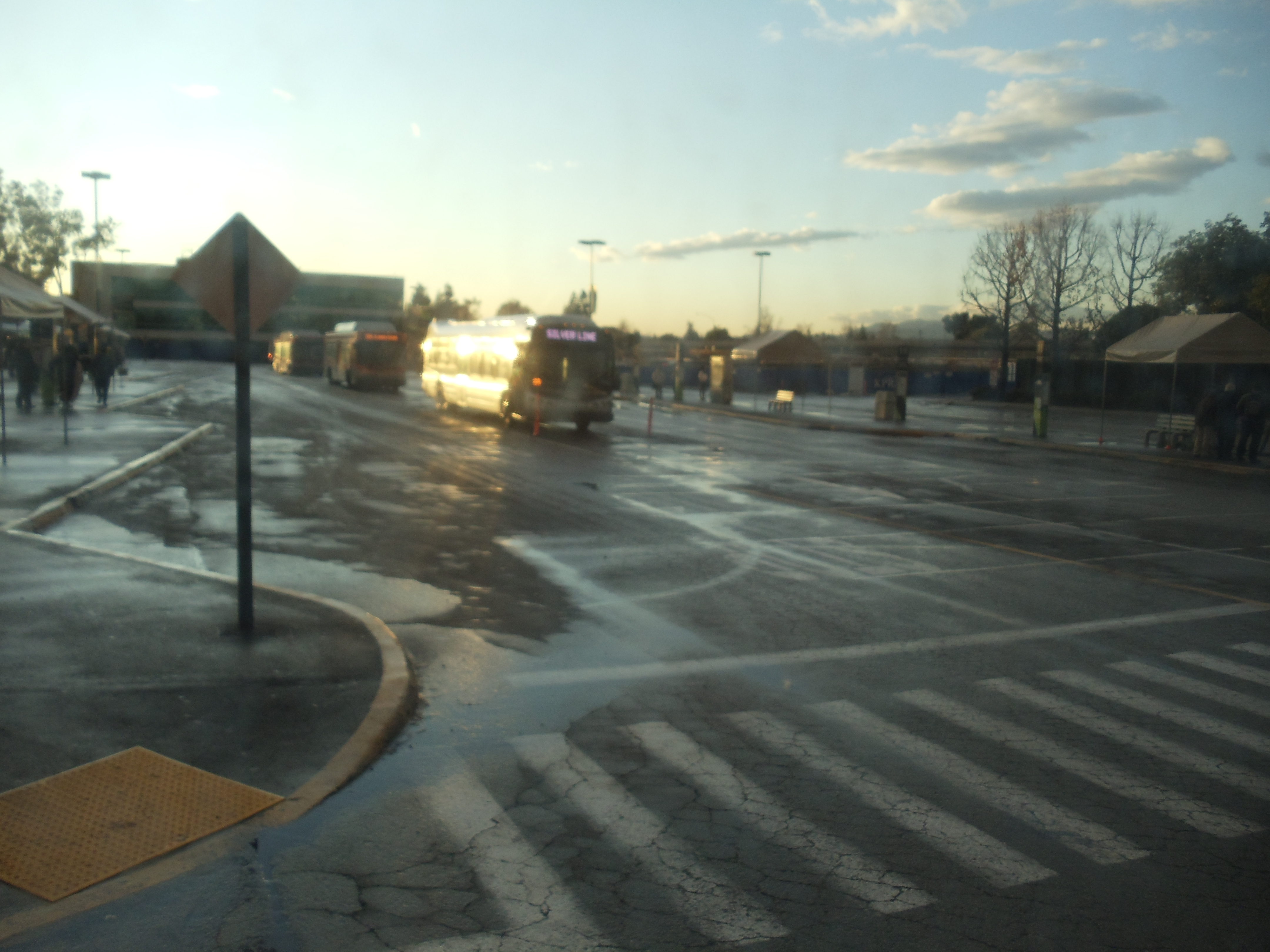 Metro bus bays